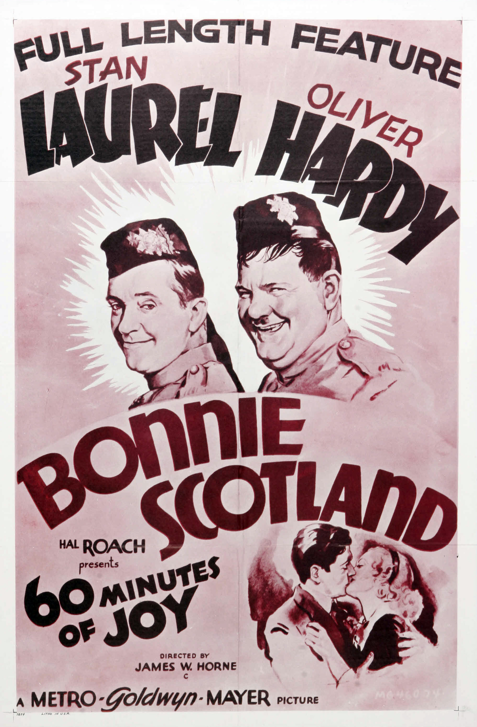 Lobby card for the Laurel and Hardy film Bonnie Scotland, also known as Heroes of the Regiment upon rerelease